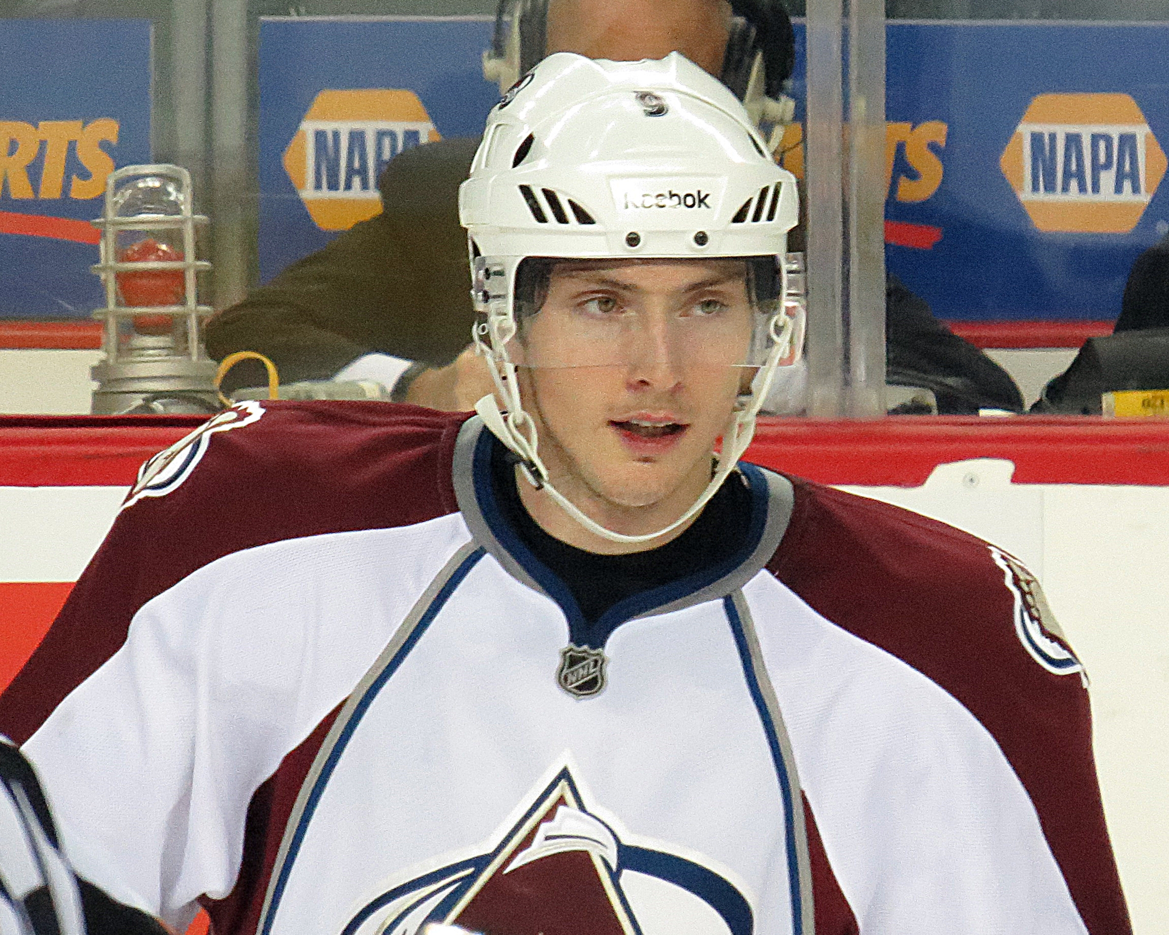 Matt Duchene of the Colorado Avalanche during the 2013–14 season.